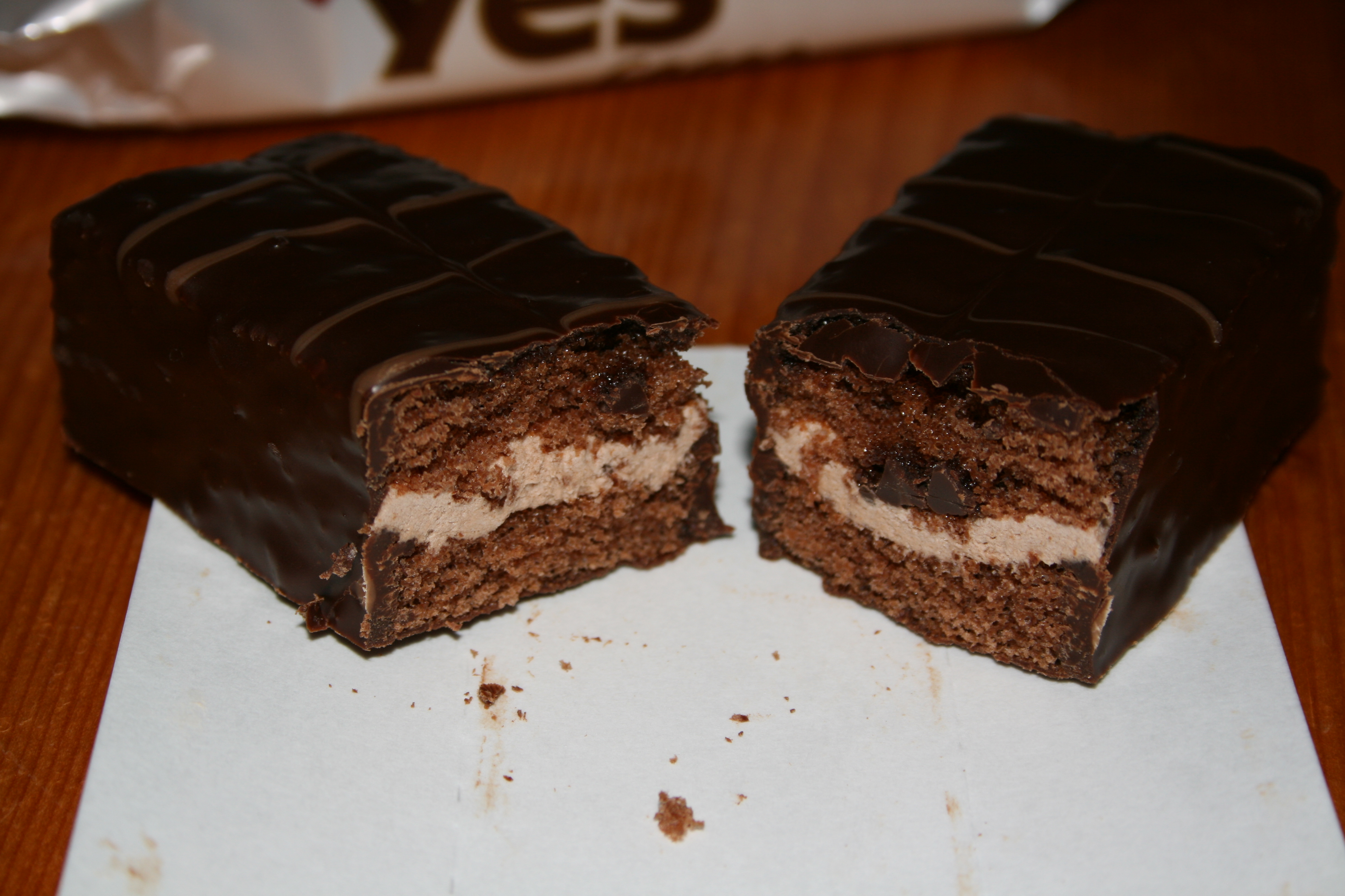 YES Torty Cacao